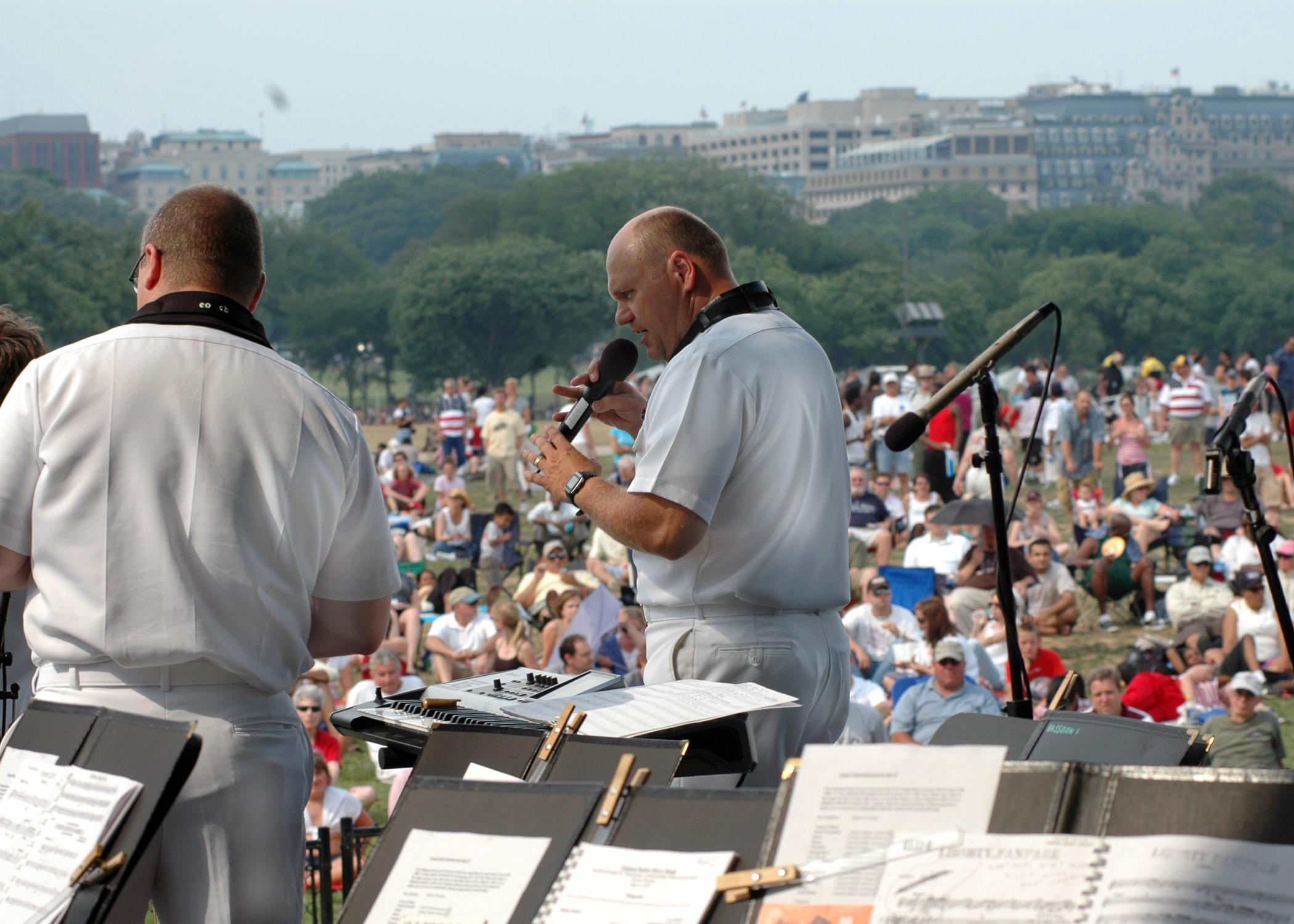 WASHINGTON (July 4, 2007) – Senior Chief Musician John Fisher performs with the U.S. Navy Band Cruisers contemporary music ensemble at the Sylvan Theater on the grounds of the Washington Monument for the Fourth of July. The U.S. Navy Band in Washington, D.C., is the Navy’s premier musical organization and performs public concerts and military ceremonies in the greater Washington area and beyond. U.S. Navy photo by Senior Chief Musician Chris Erbe (RELEASED)